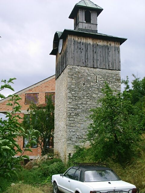 Town of Ohrid, SW corner of the Republic of Macedonia